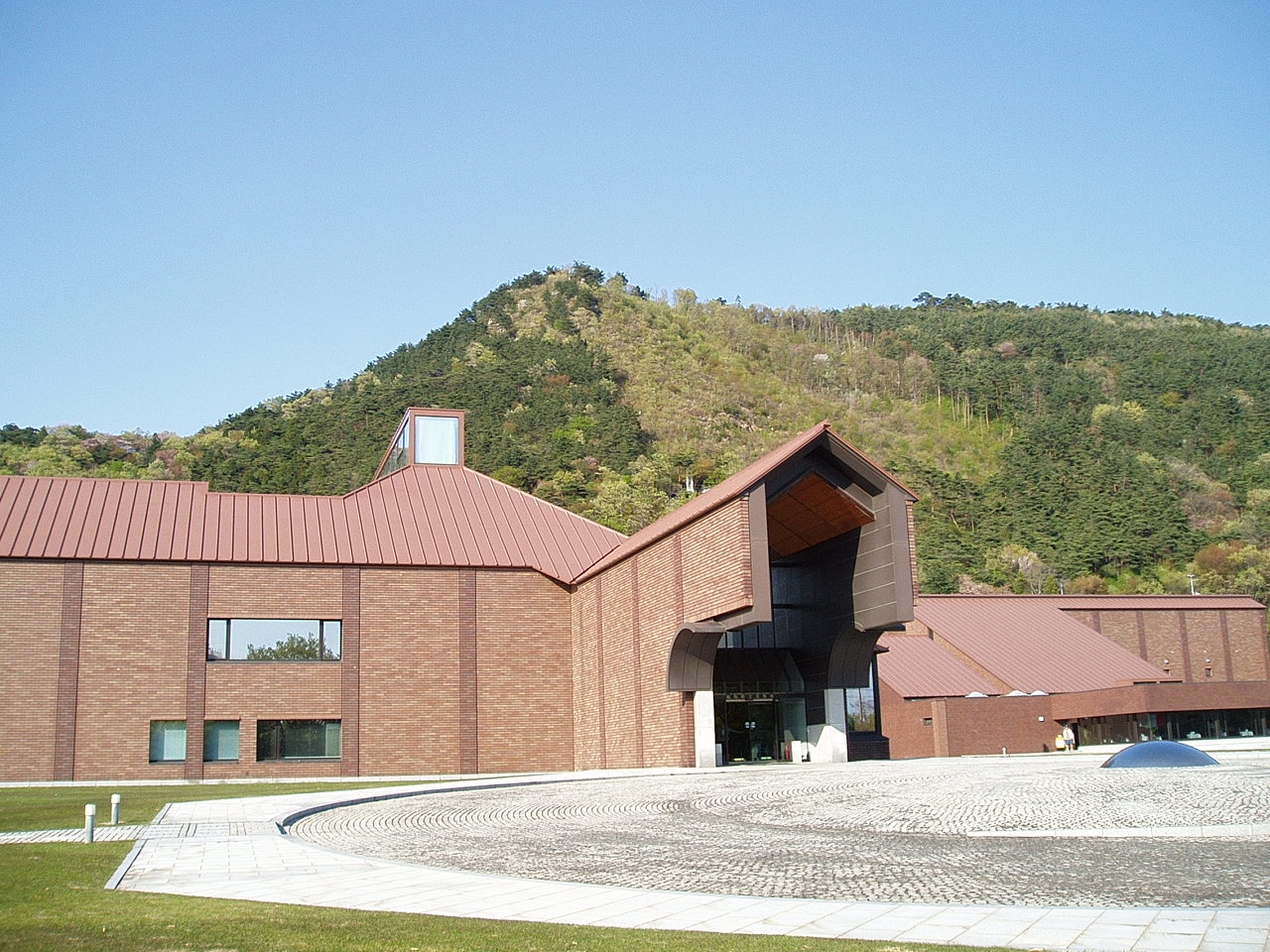 Fukushima Prefectural Museum of Art. Located in Morial, Fukushima City, Fukushima Pref., Japan.